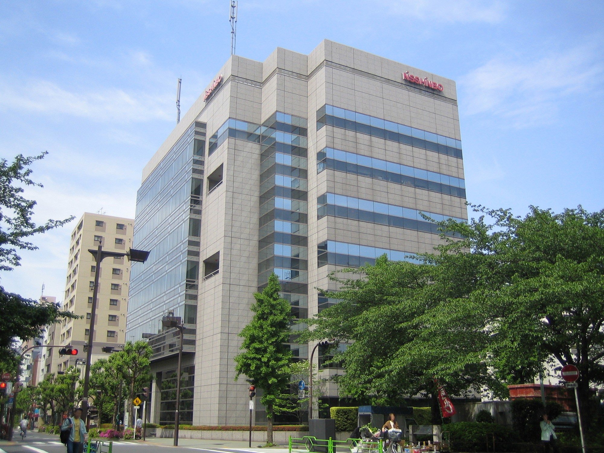 Nisshinbo Industries, Inc. (日清紡績 Nisshin Bōseki), in Chuo, Tokyo, Japan